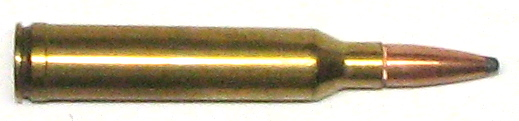 7mm Remington Magnum rifle cartridge